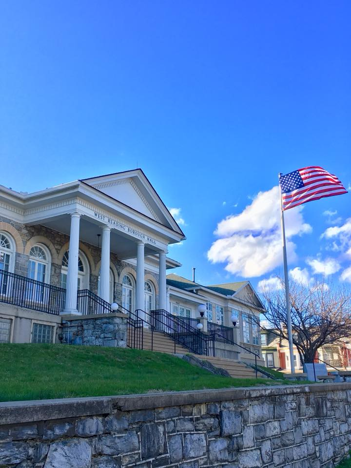 West Reading Borough Hall on a windy spring day.